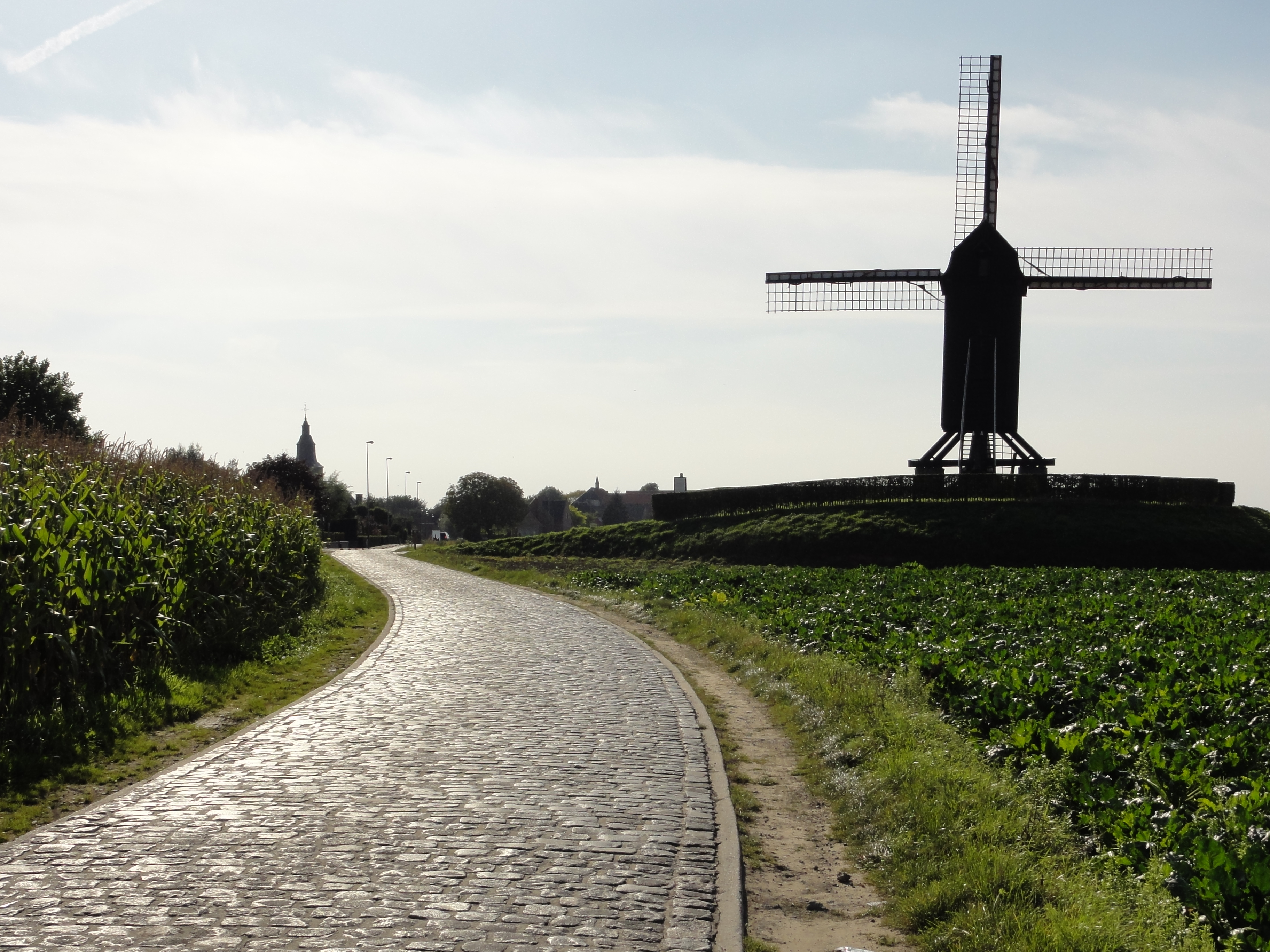 Huisepontweg towards Wannegem, with the Schietsjampettermolen windmill. Wannegem, Wannegem-Lede, Kruishoutem, East Flanders, Belgium